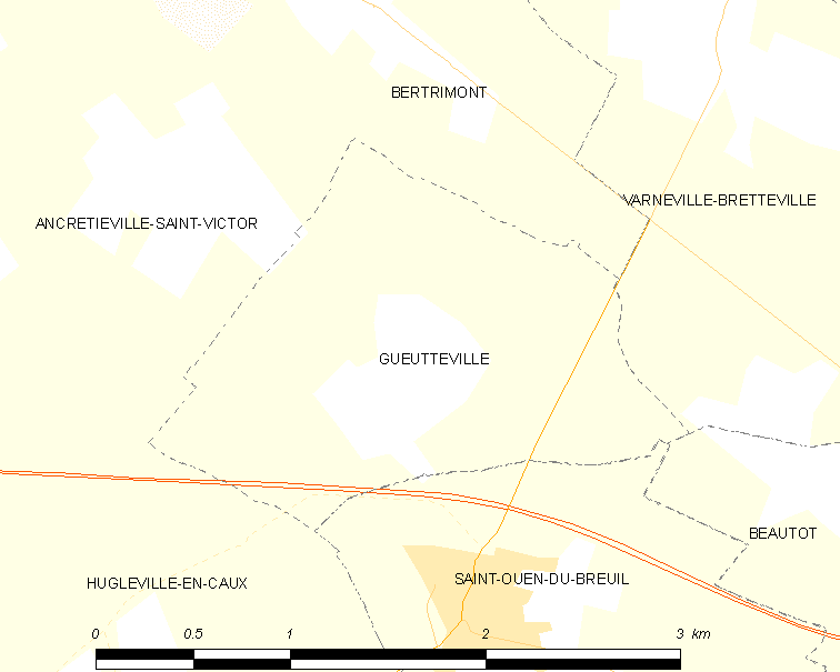 Map of French municipality Gueutteville